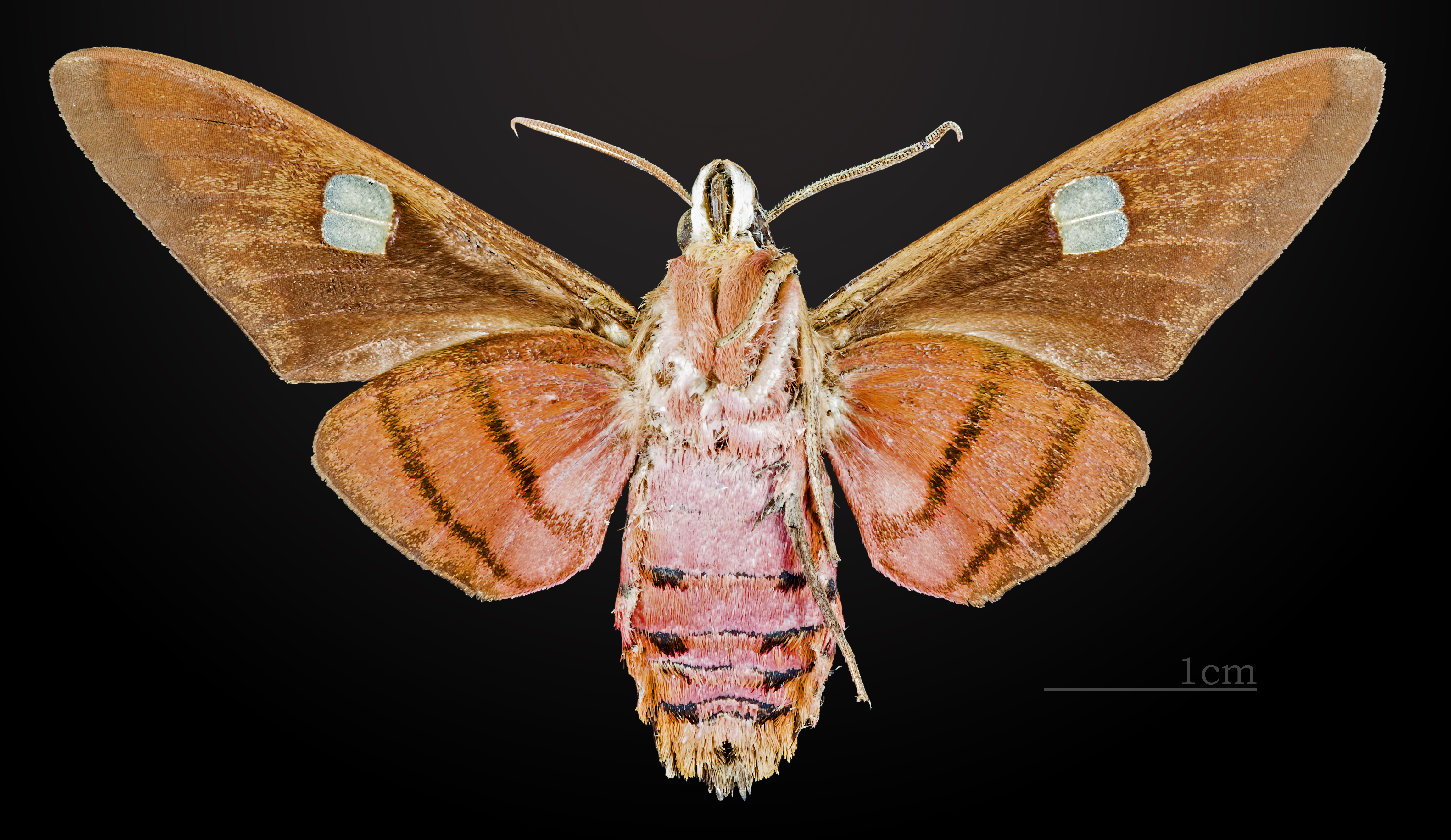 Hayesiana triopus - △ Ventral side Collection of the Mathematician Laurent Schwartz